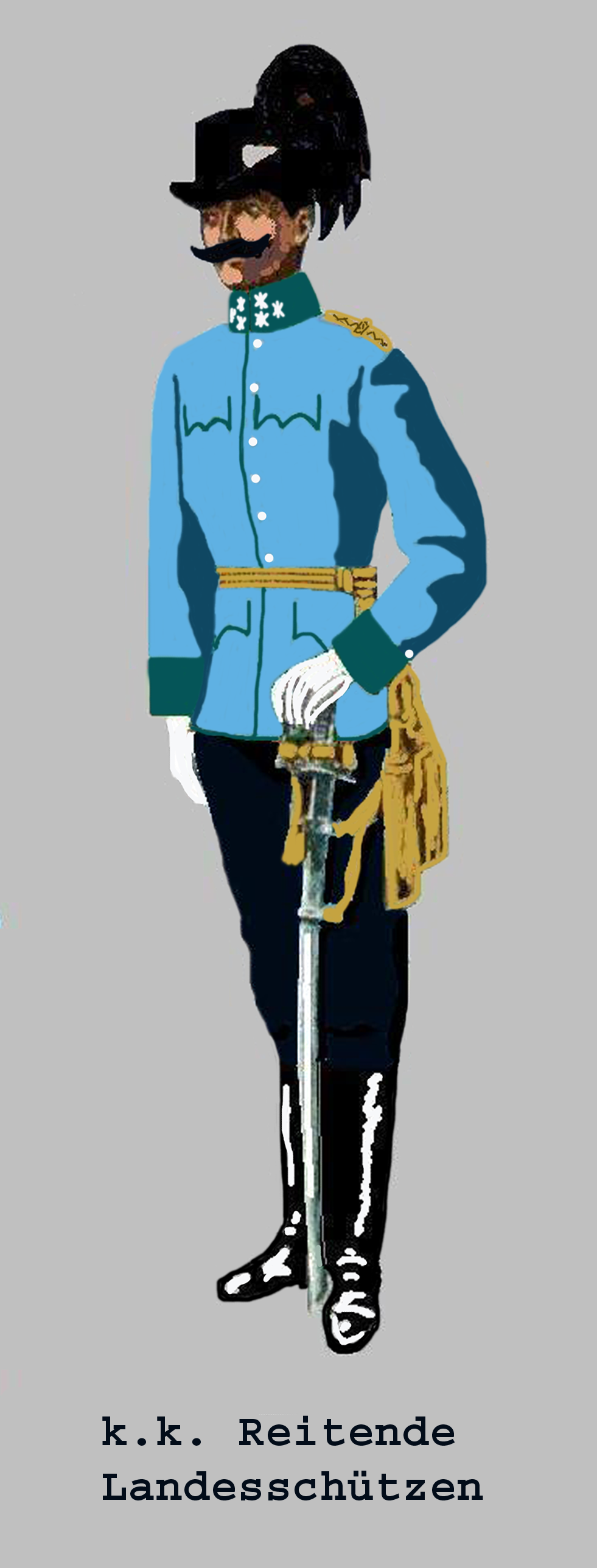 Captain of the Mounted Tyrolian Rifles in paradedress.